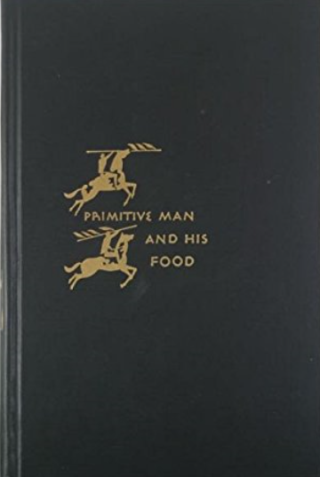 Primitive Man and His Food, published in 1952.